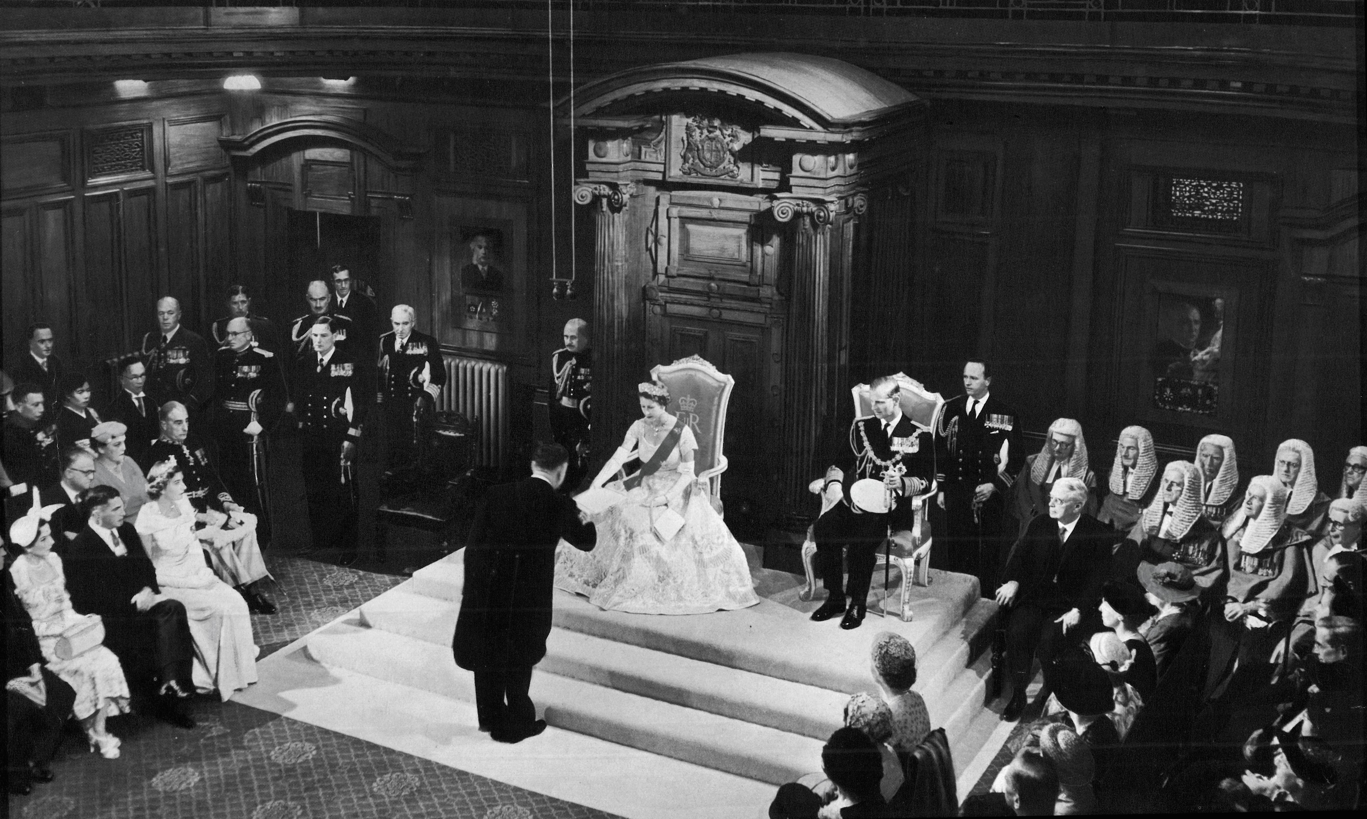 Her Majesty Queen Elizabeth II opening a session of the New Zealand Parliament on 12 January 1954 in the Legislative Council Chamber, Parliament House. She is accepting a vellum copy of her speech from the throne from Sir Sidney Holland (Prime Minister, 1949-1957).